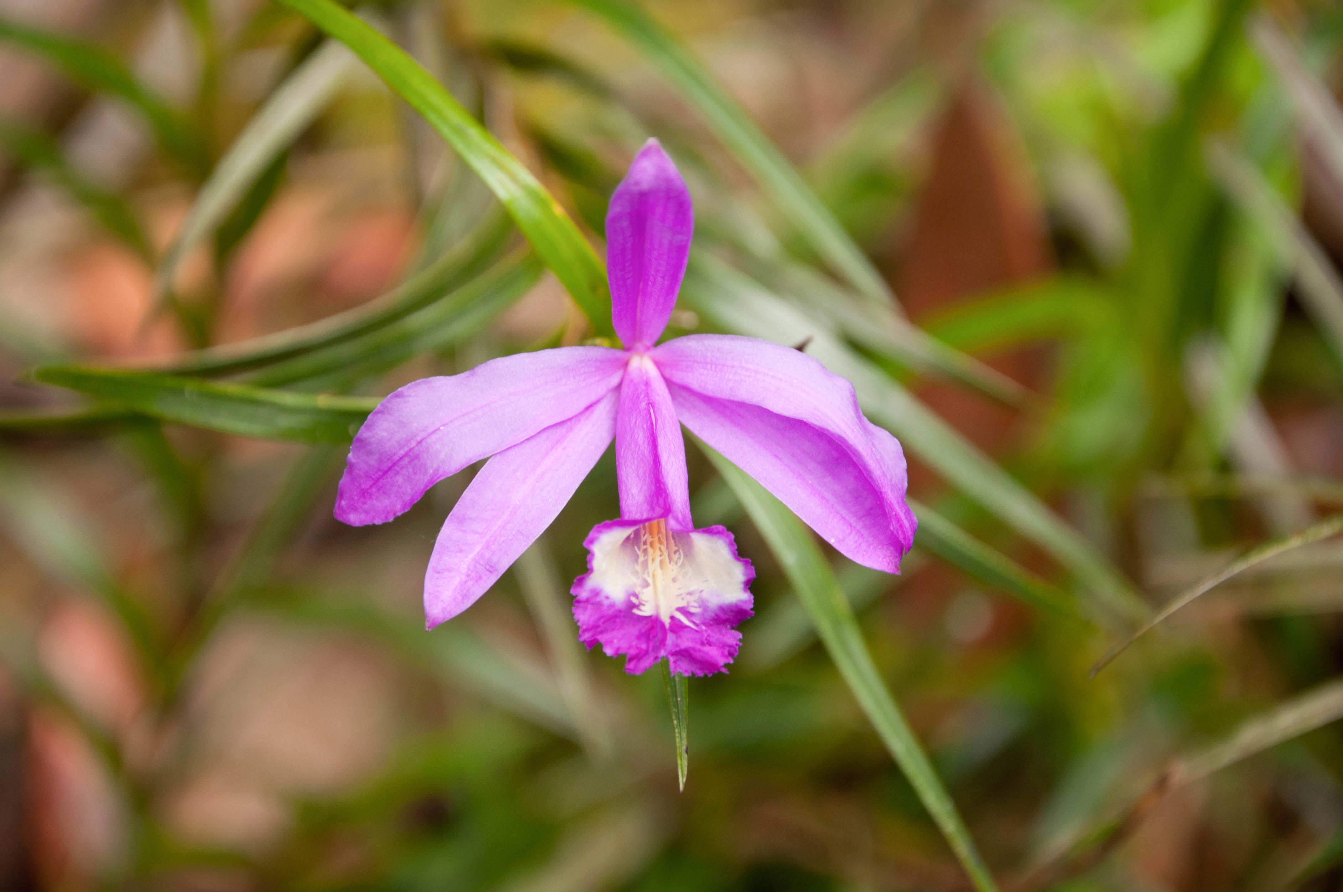 Sobralia stenophylla in Gran Sabana